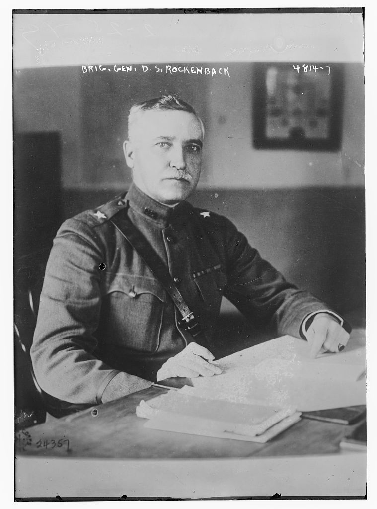 Samuel Dickerson Rockenbach circa 1918